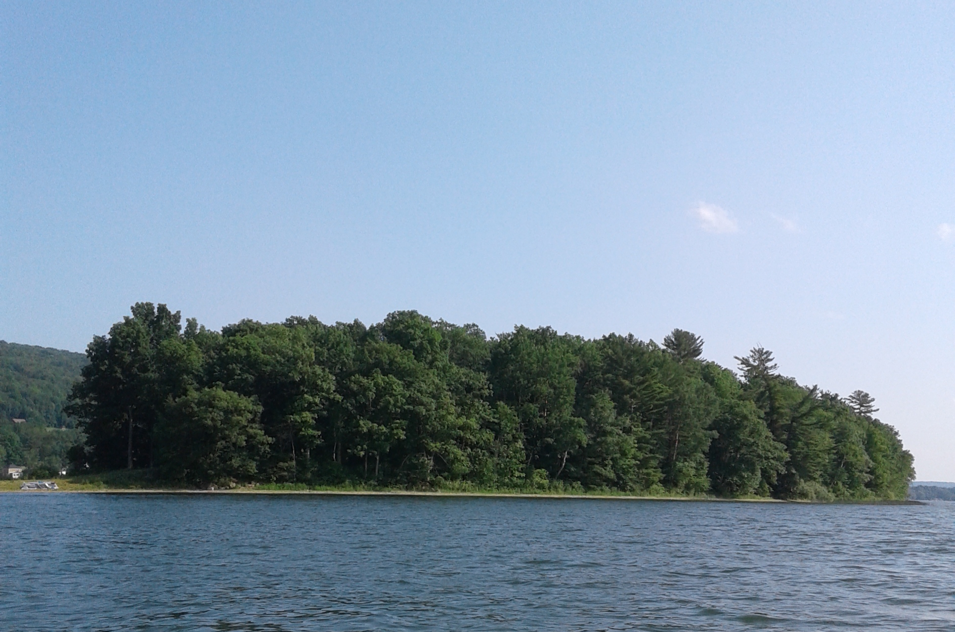 Deowongo Island on Canadarago Lake in New York, USA. Looking at the west side of the island